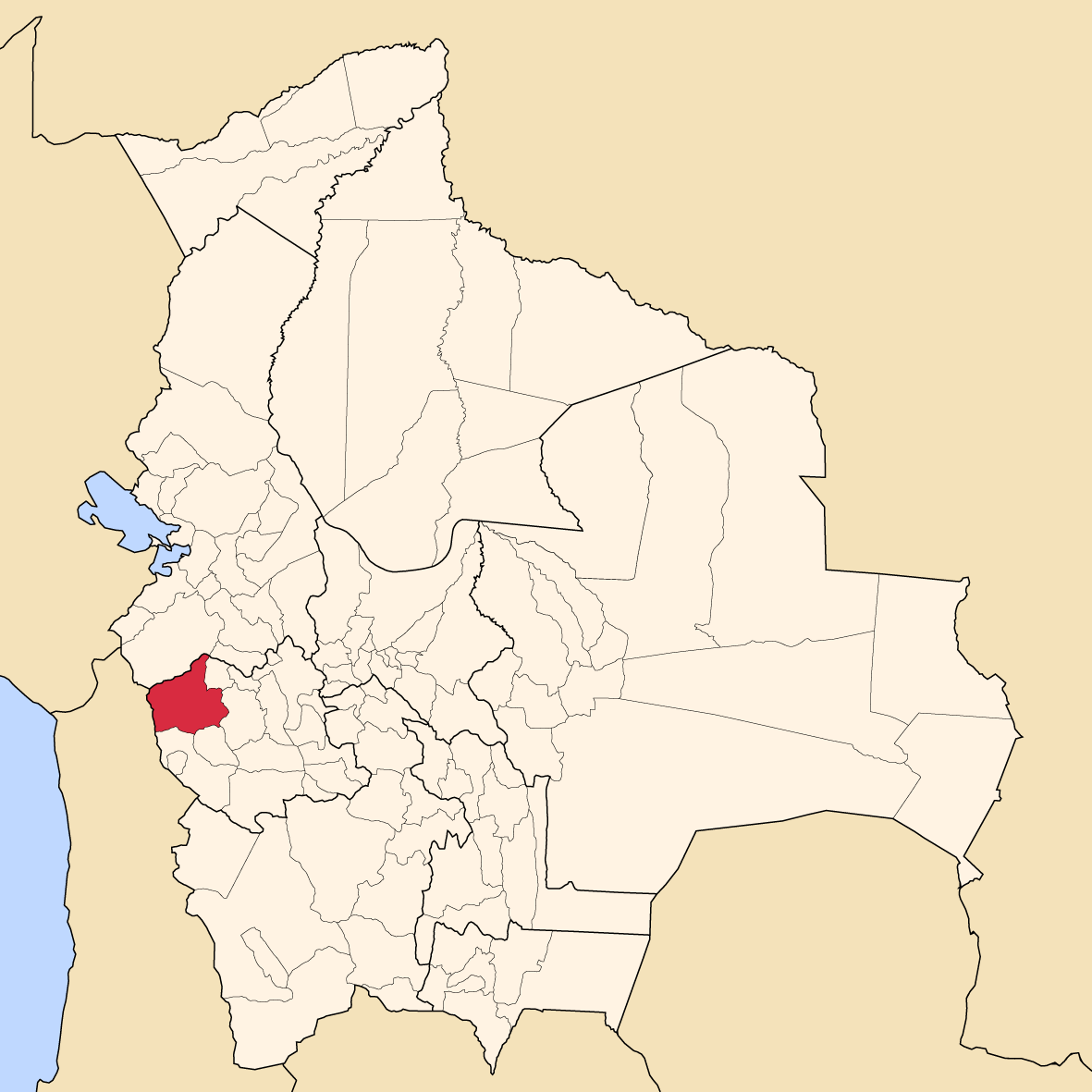 Map of Bolivia showing Sajama province, Oruro